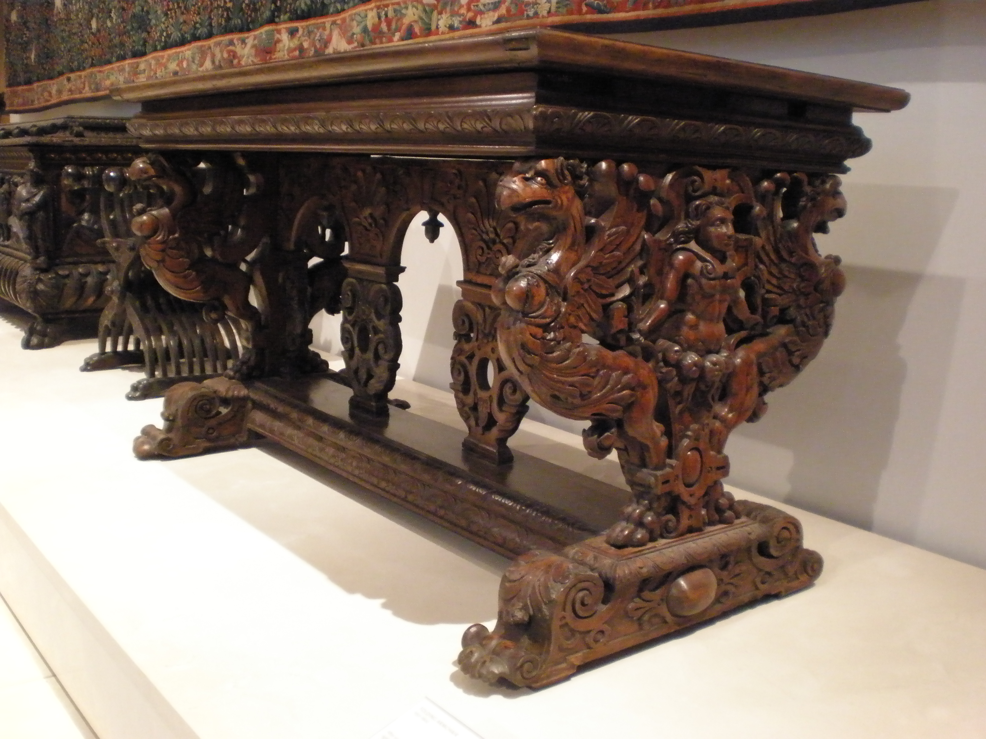 Table 1560-1600; France, possibly Burgundy Walnut, carved Mid section restored about 1840 This type of centre table with fixed supports was known from its fan-shaped supports as a table 'en �ventail' (fan). Tables of this form have often been associated with Jacques Androuet Du Cerceau who published various, influential designs for similar tables from 1550, but he was not the inventor, since the form appeared in Italy from the 1520s, probably inspired by antique marble tables. Such tables were found in France by 1549, and the evidence of inventories suggests that they were considered highly fashionable in a well furnished room, and appropriate for dining, business or conversation with guests.Their impressive sculptural end pieces and their ornament derived from classical antiquity, distinguished them from the simple, standard trestle tables which had been used during the medieval period. Collection ID: 7216-1860 This photo was taken as part of Britain Loves Wikipedia in February 2010 by David Jackson.